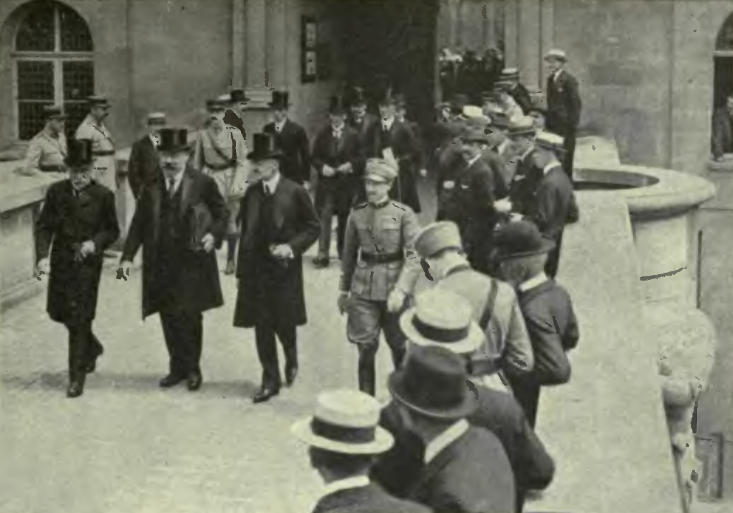 Dr. Karl Renner, head of the Austrian delegation at the Peace Conference, leaving with other delegates with the treaty in a portfolio, Chateau of St. Germain.